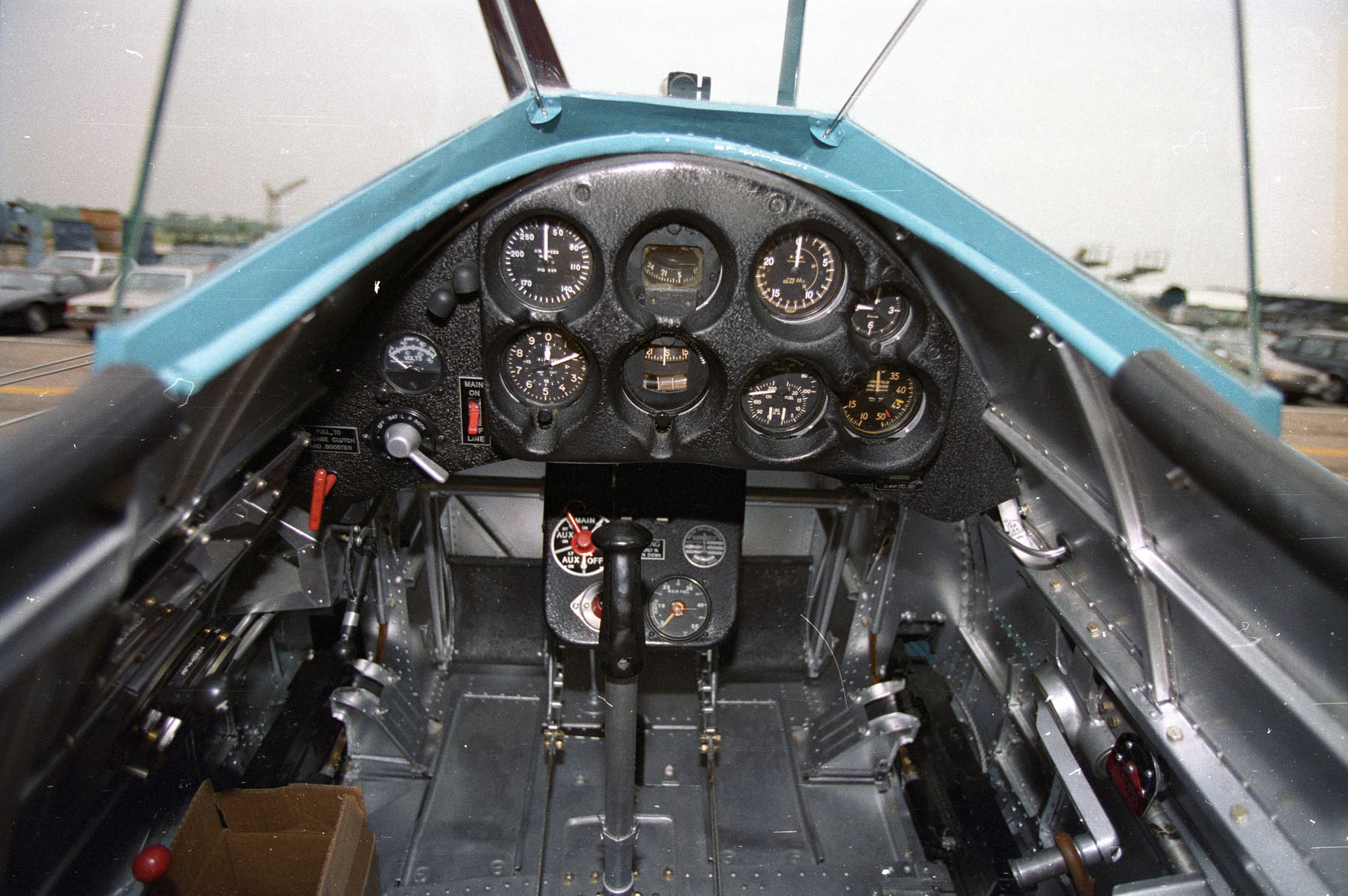 Boeing P-26A cockpit at the National Museum of the United States Air Force